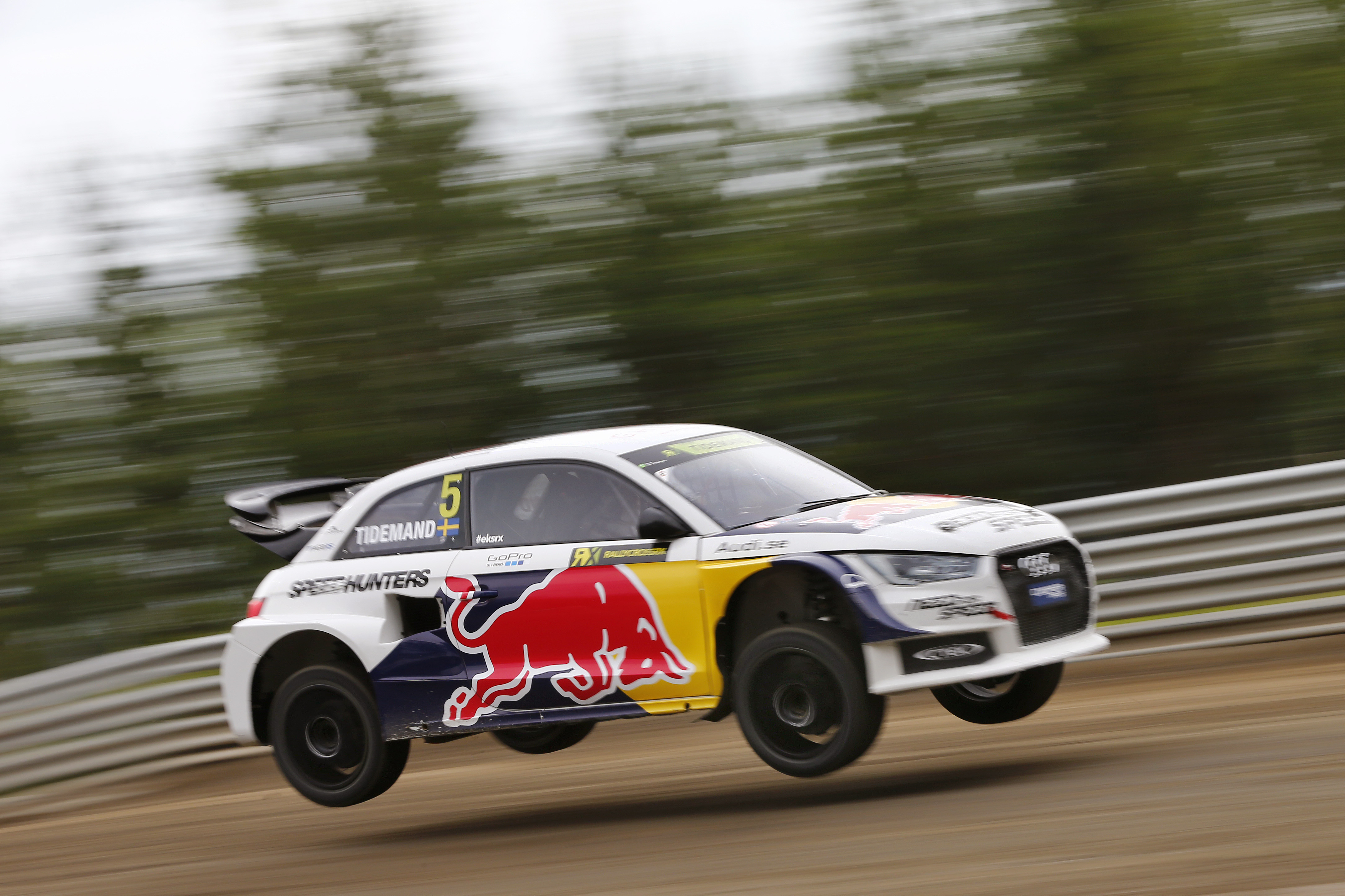 2014 FIA World Rallycross Championship Round 04 Kouvola, Finland 28th & 29th June 2014 Worldwide Copyright: EKS/McKlein